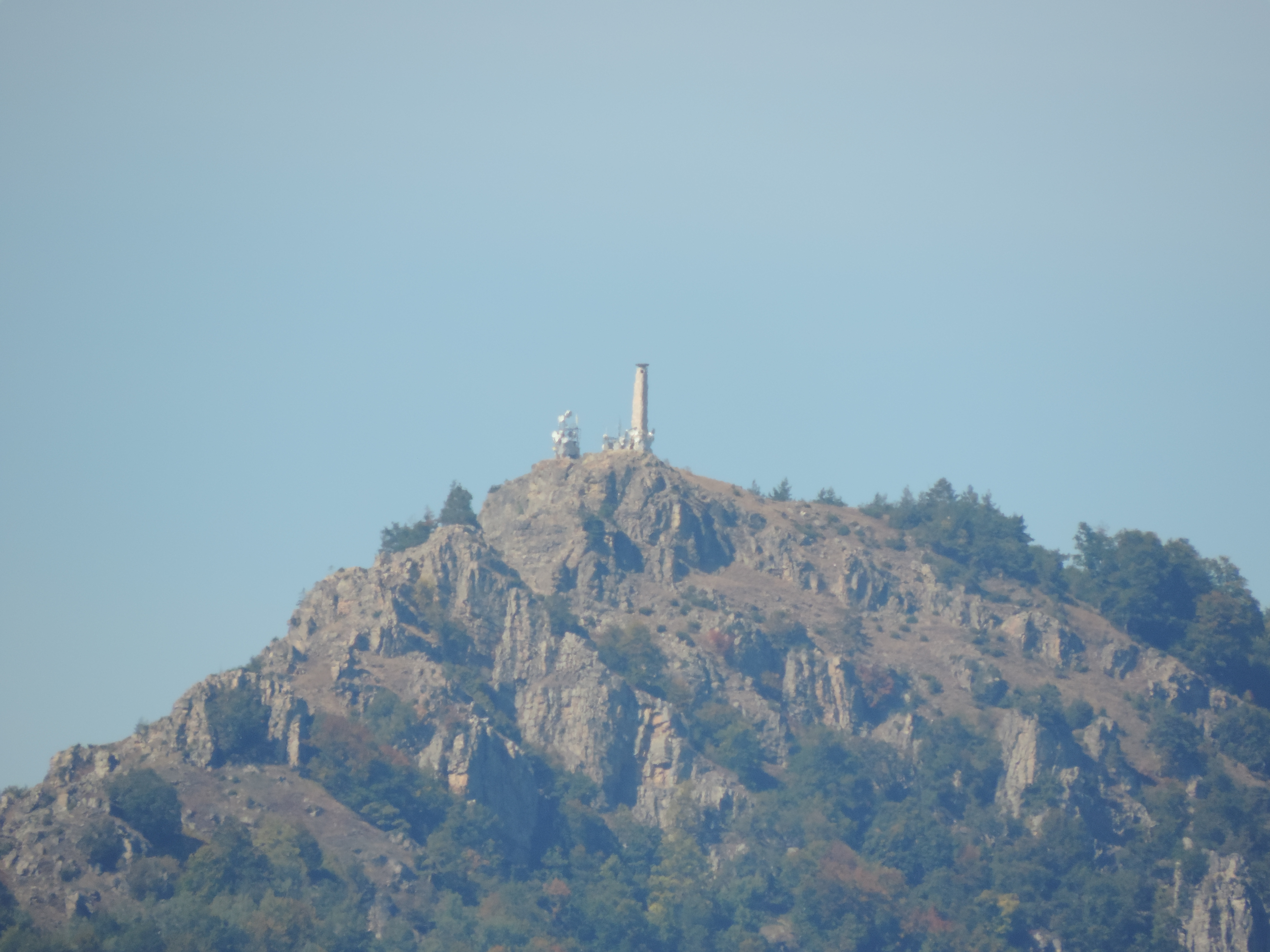 Milevi skali Peak, Rhodope Mountains, Bulgaria.